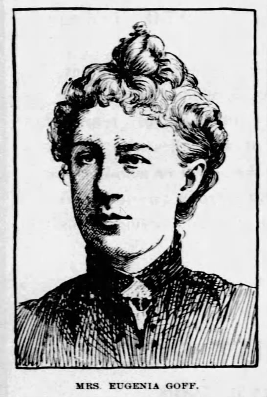 Eugenia Almira Wheeler Goff, from "Woman's World" newspaper column The Montclair Times (Montclair, New Jersey)26 Apr 1902, Sat P age 7